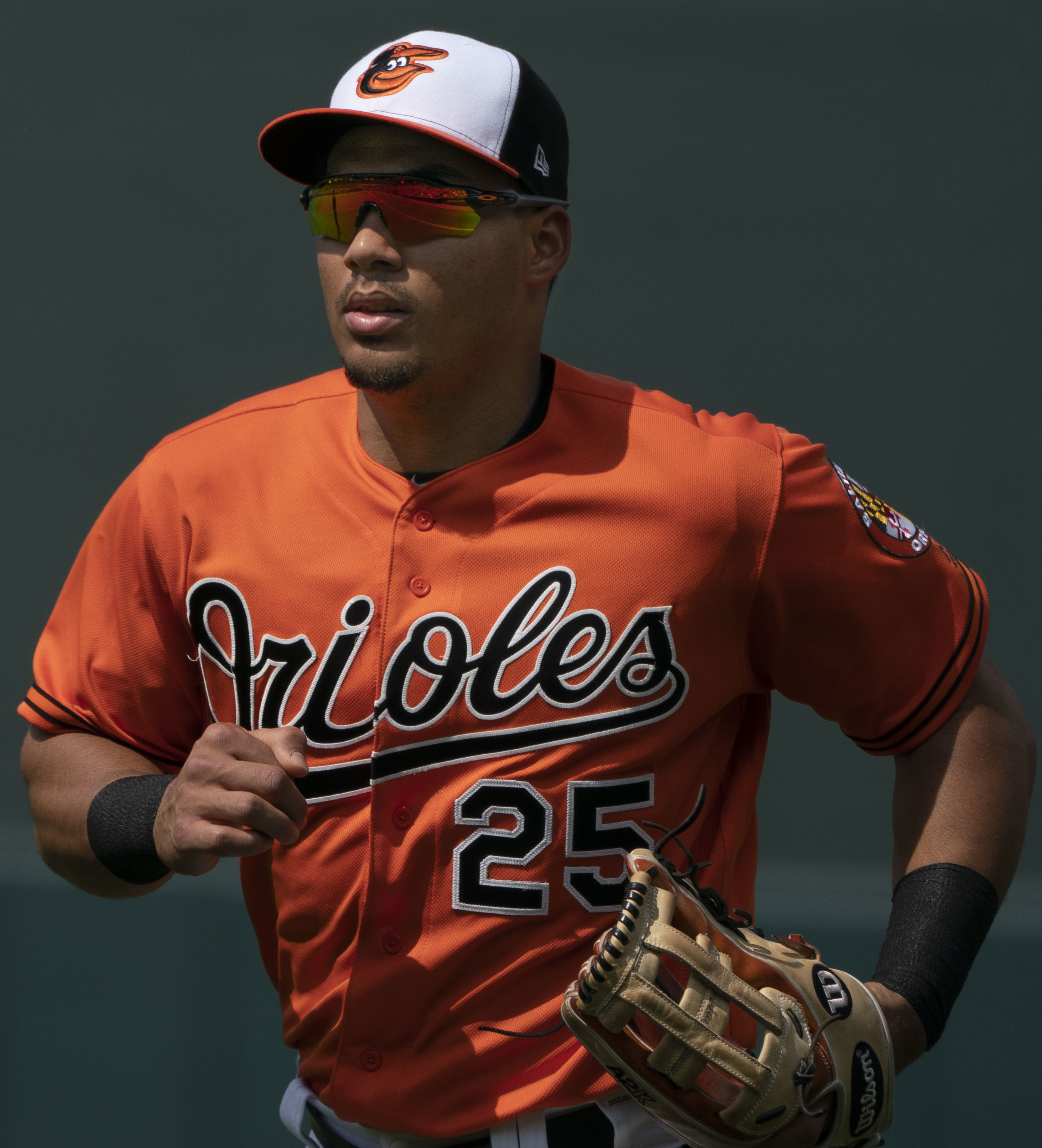 Rays at Orioles 5/12/18